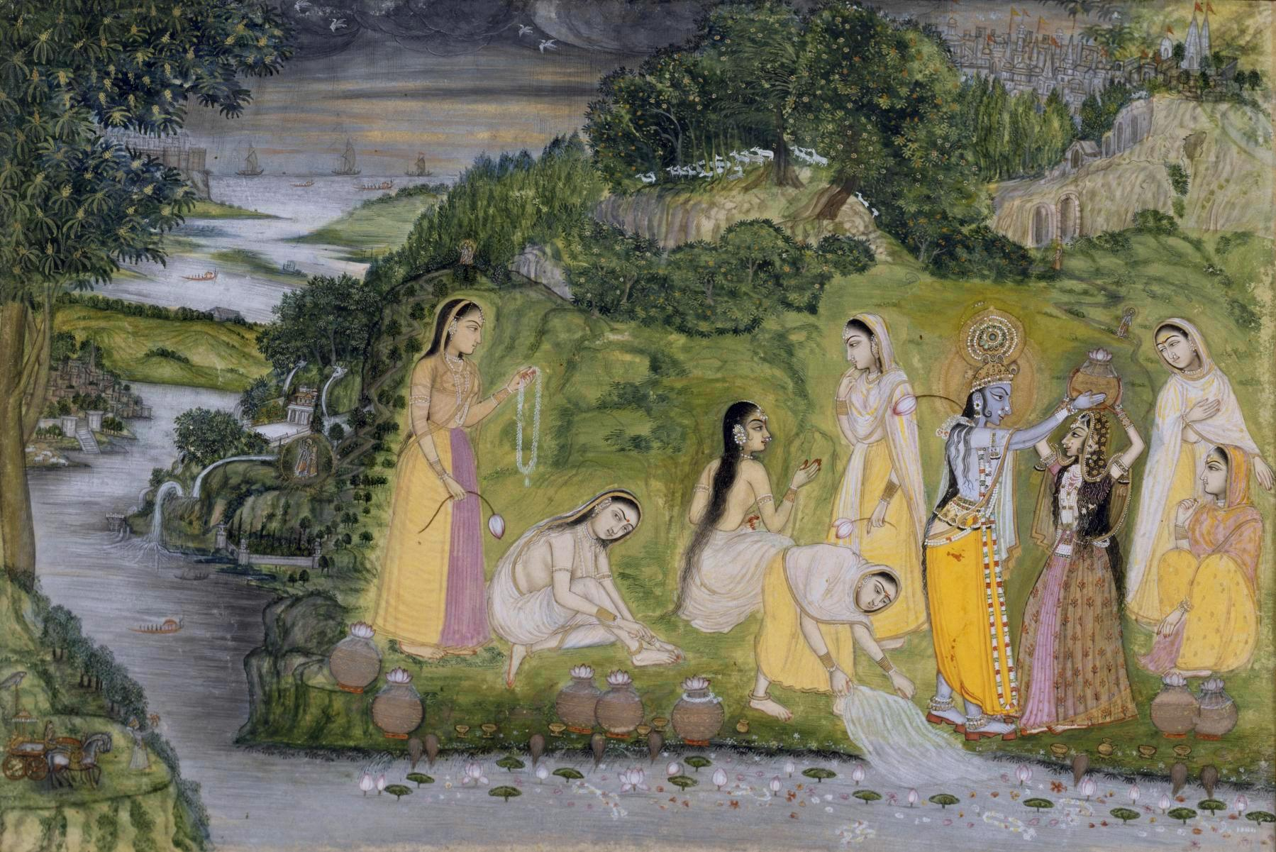 Flirtation on the Riverbank 1750-75 Kishangarh. Walters Museum of Art, Baltimore